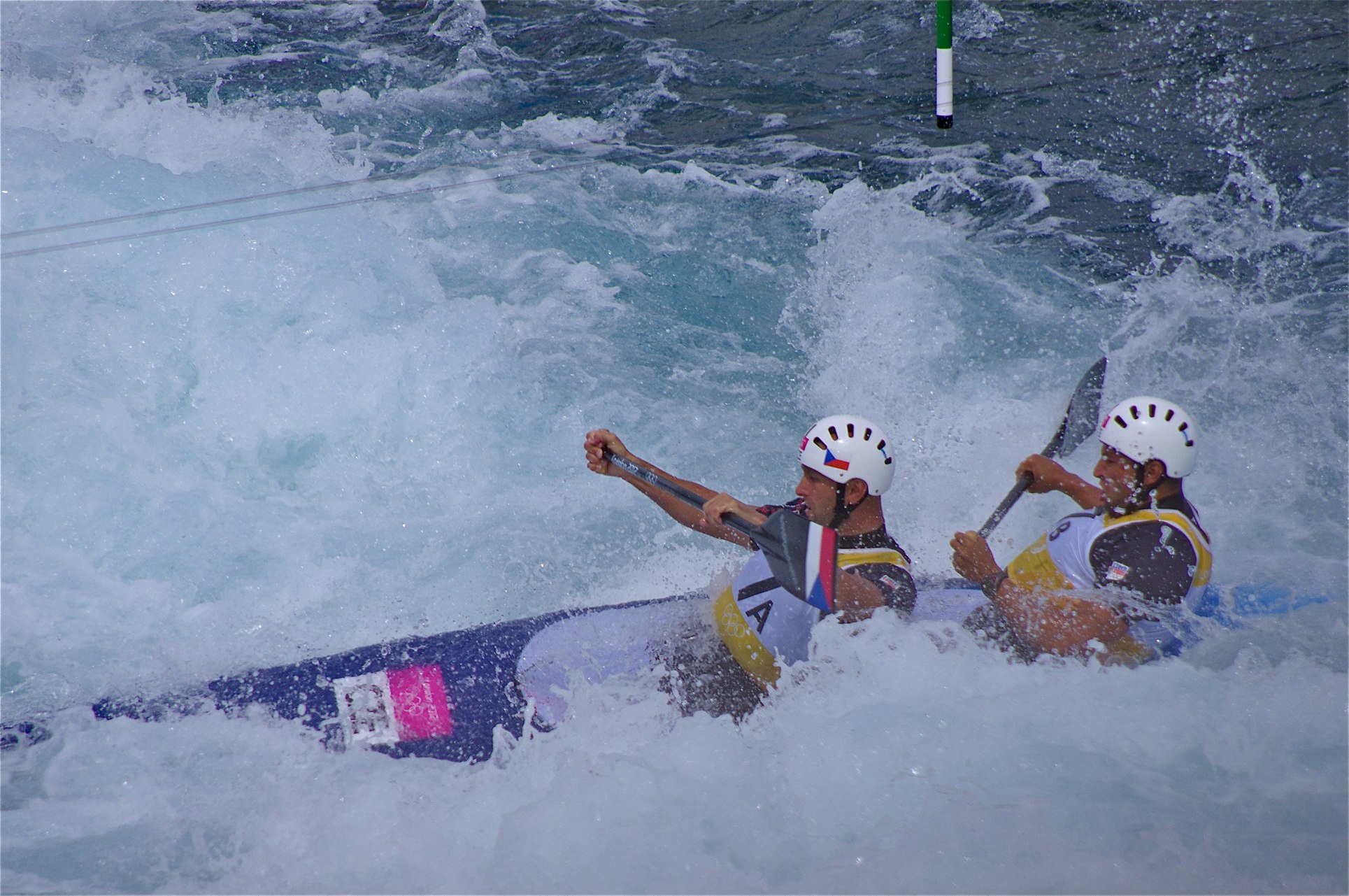 Canoeing at the 2012 Summer Olympics – Men's slalom C-2 Jaroslav Volf (7A) and Ondřej Štěpánek (7B) (CZE)